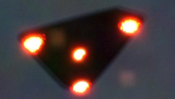 Flying triangle claimed to have been photographed on June 15, during the 1990 Belgian UFO Flap, over Wallonia, Belgium. It was posted online in 2003, 13 years after the flap